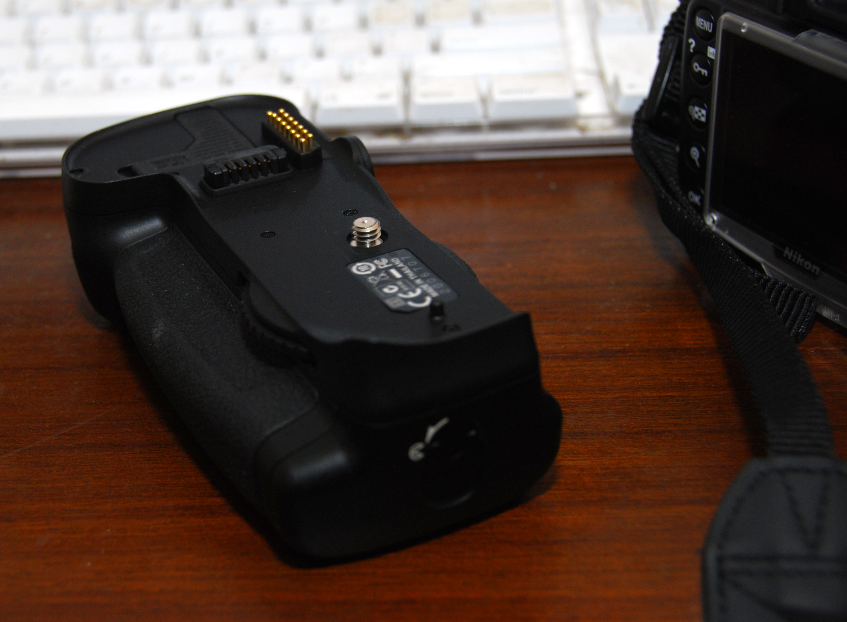 MB-D10 Battery Pack